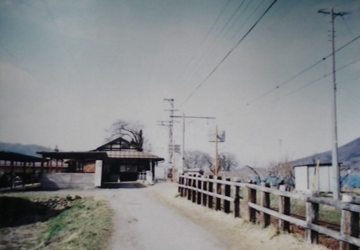 Naganodentetsu Shikago Station 2002 March